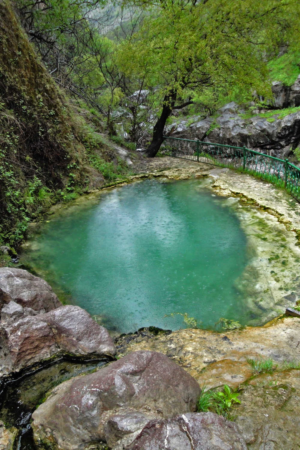 Thermal lake near Satan's bridge